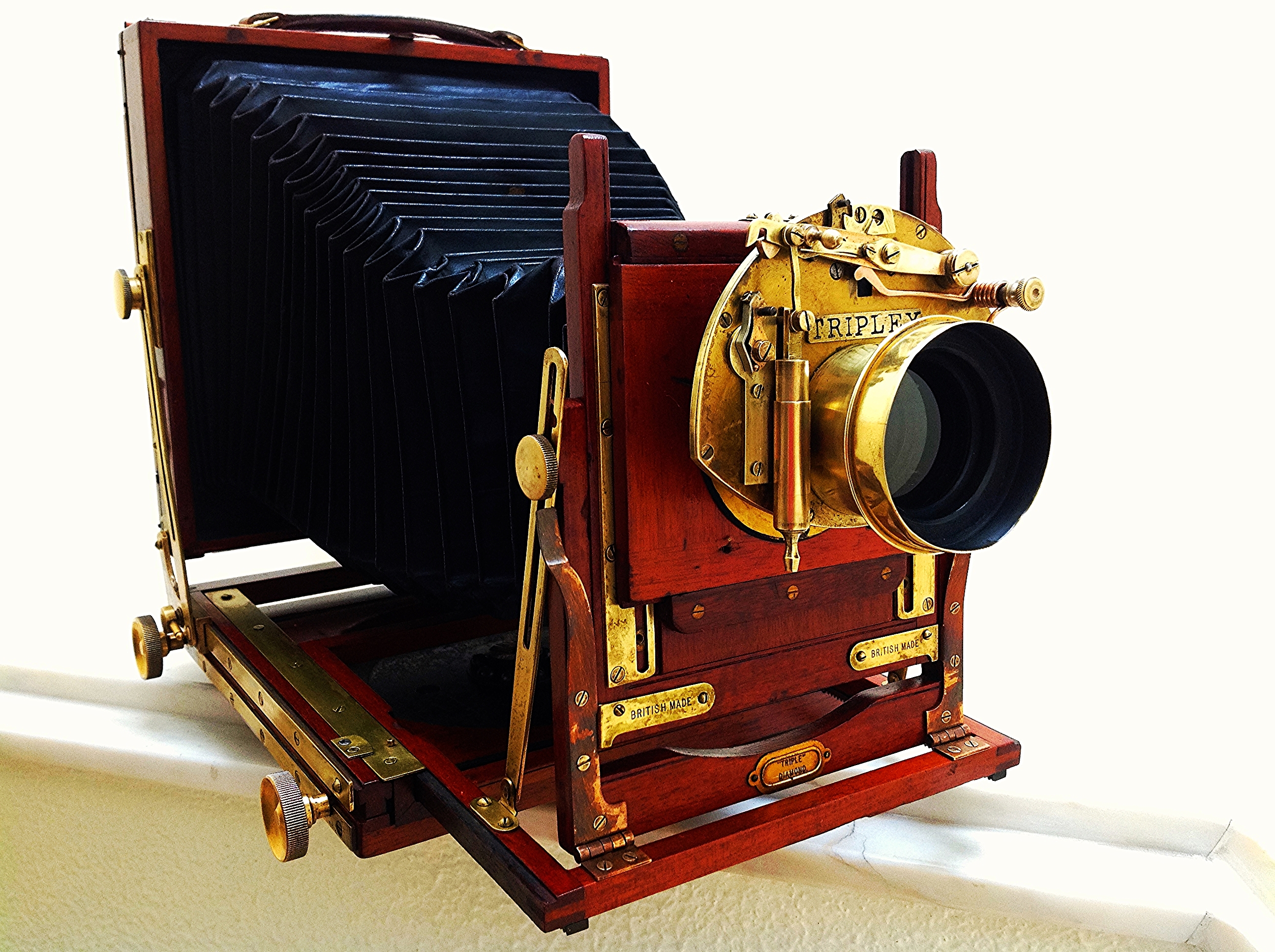 HOUGHTON , Triple Victo , 1914 , shutter PROSCH MFG, Triplex